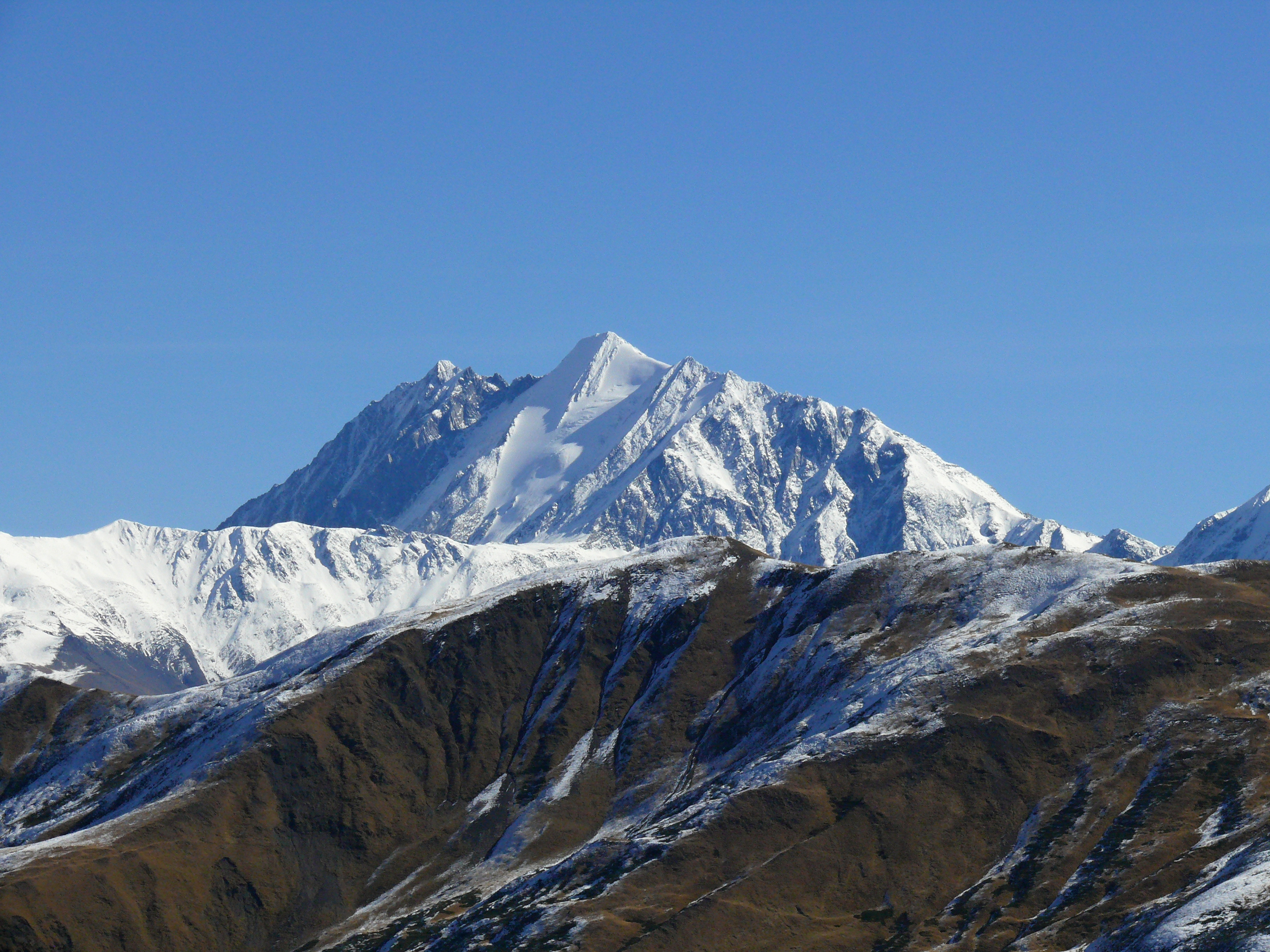 Tebulosmta. South-western view from the main ridge near the დათვისჯვარი უღელტეხილი (Bear cross pass).